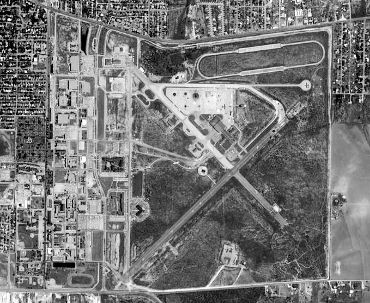 USGS orthophoto of Goodfellow Air Force Base in Texas, United States - 7 January 1999